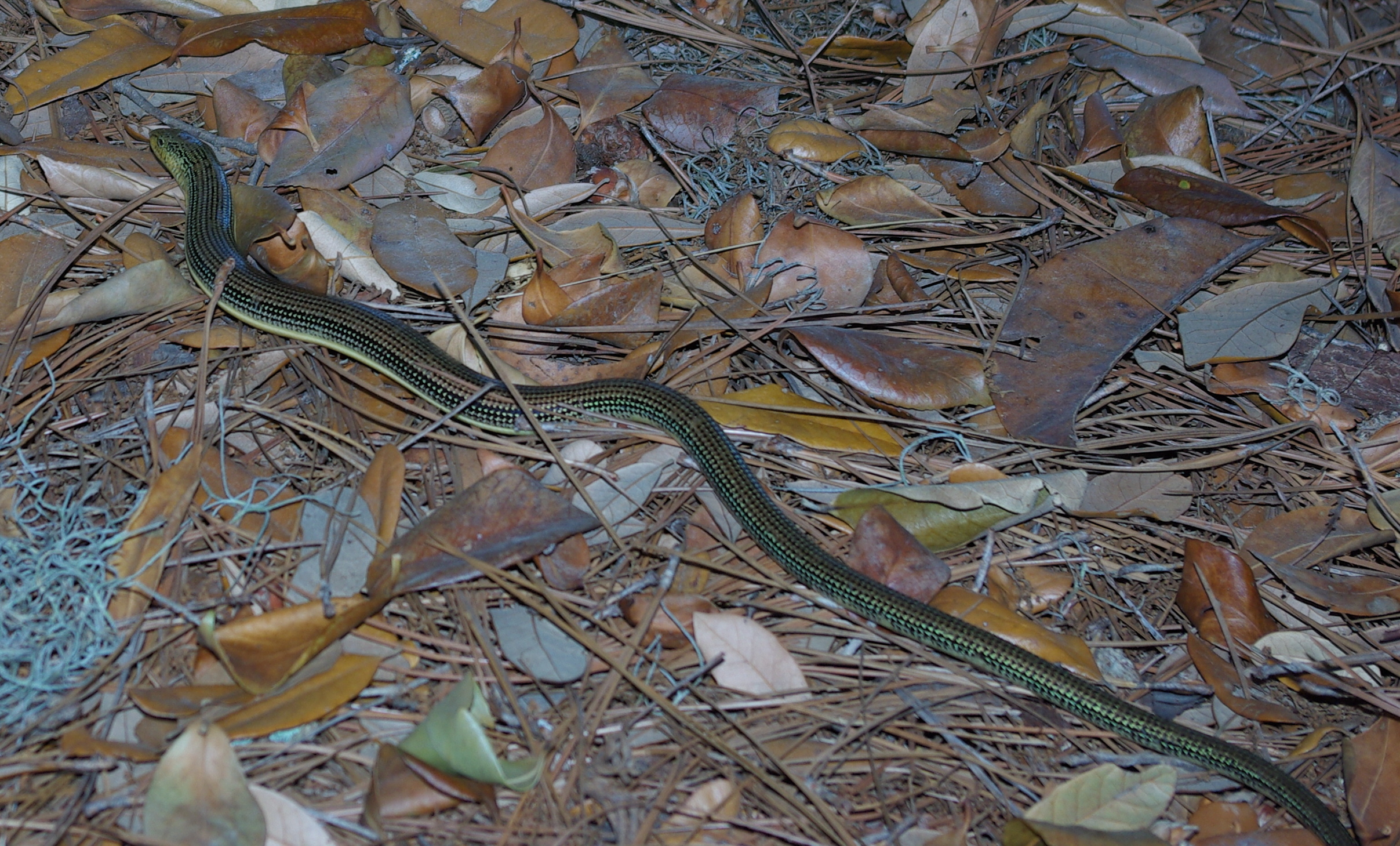 Eastern Glass Lizard at Airlie Gardens, Wilmington, NC